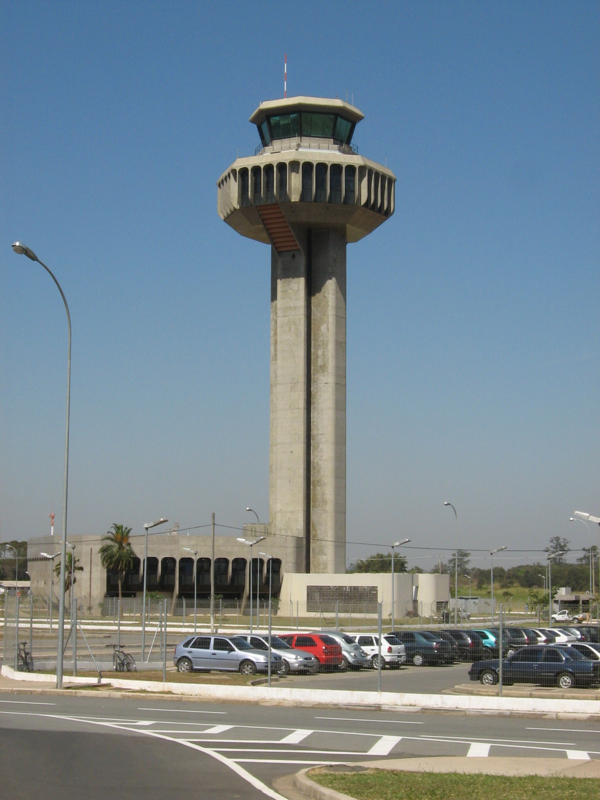 Tower of Viracopos-Campinas Airport